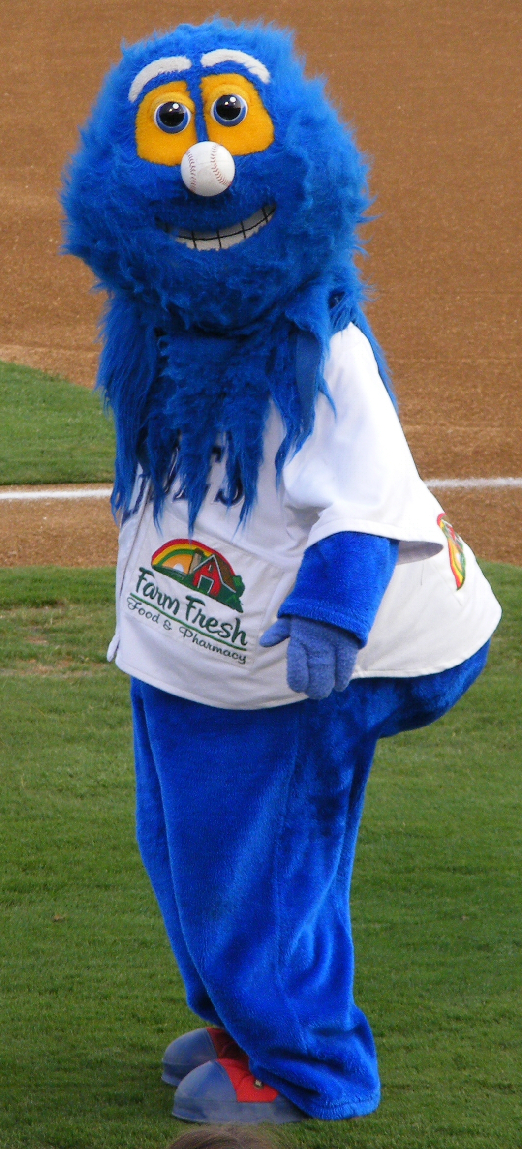 Rip Tide, the mascot of the Norfolk Tides, taken at a game in Harbor Park against the Columbus Clippers